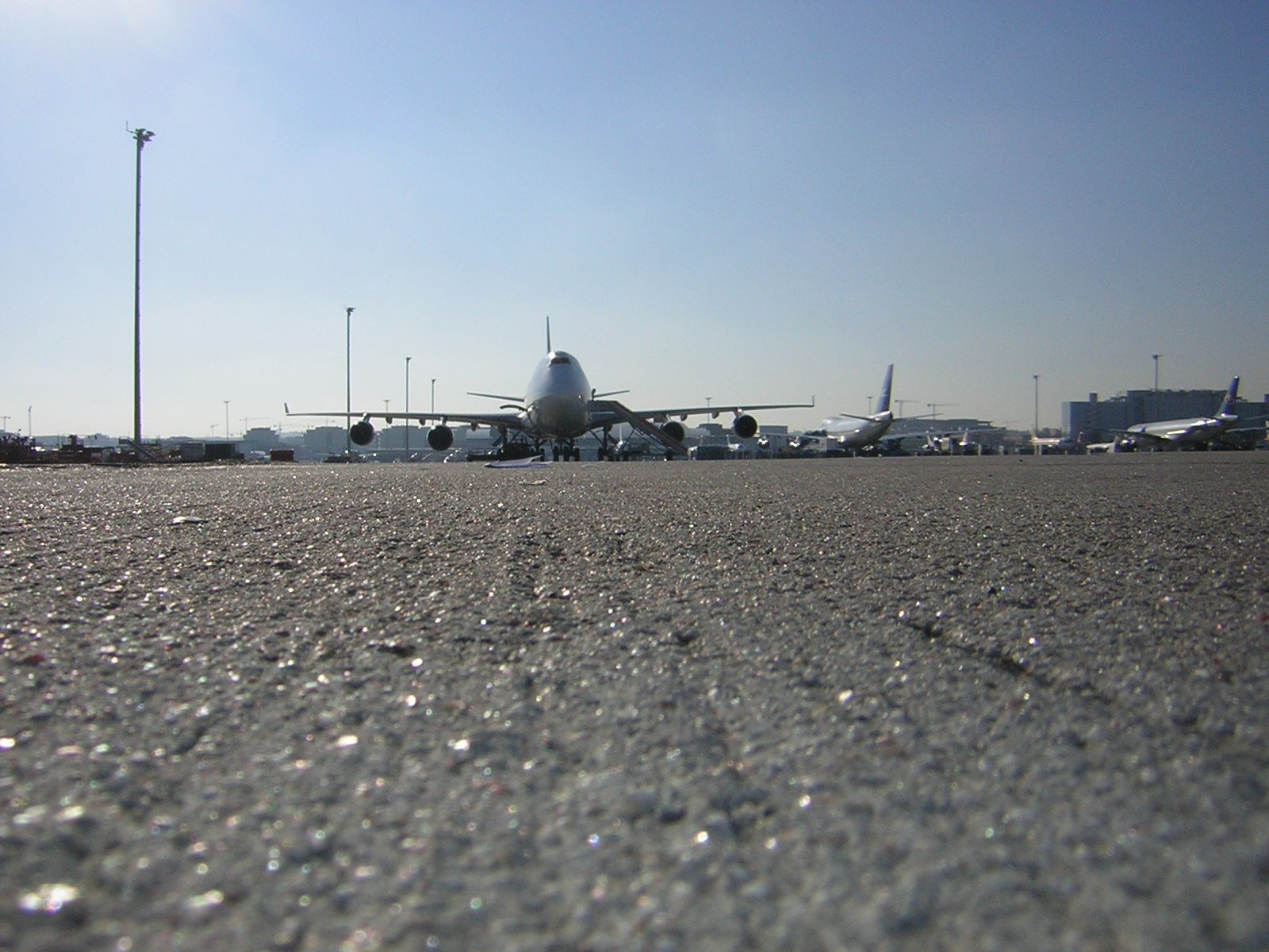 A taxiway at Madrid-Barajas airport (Spain).